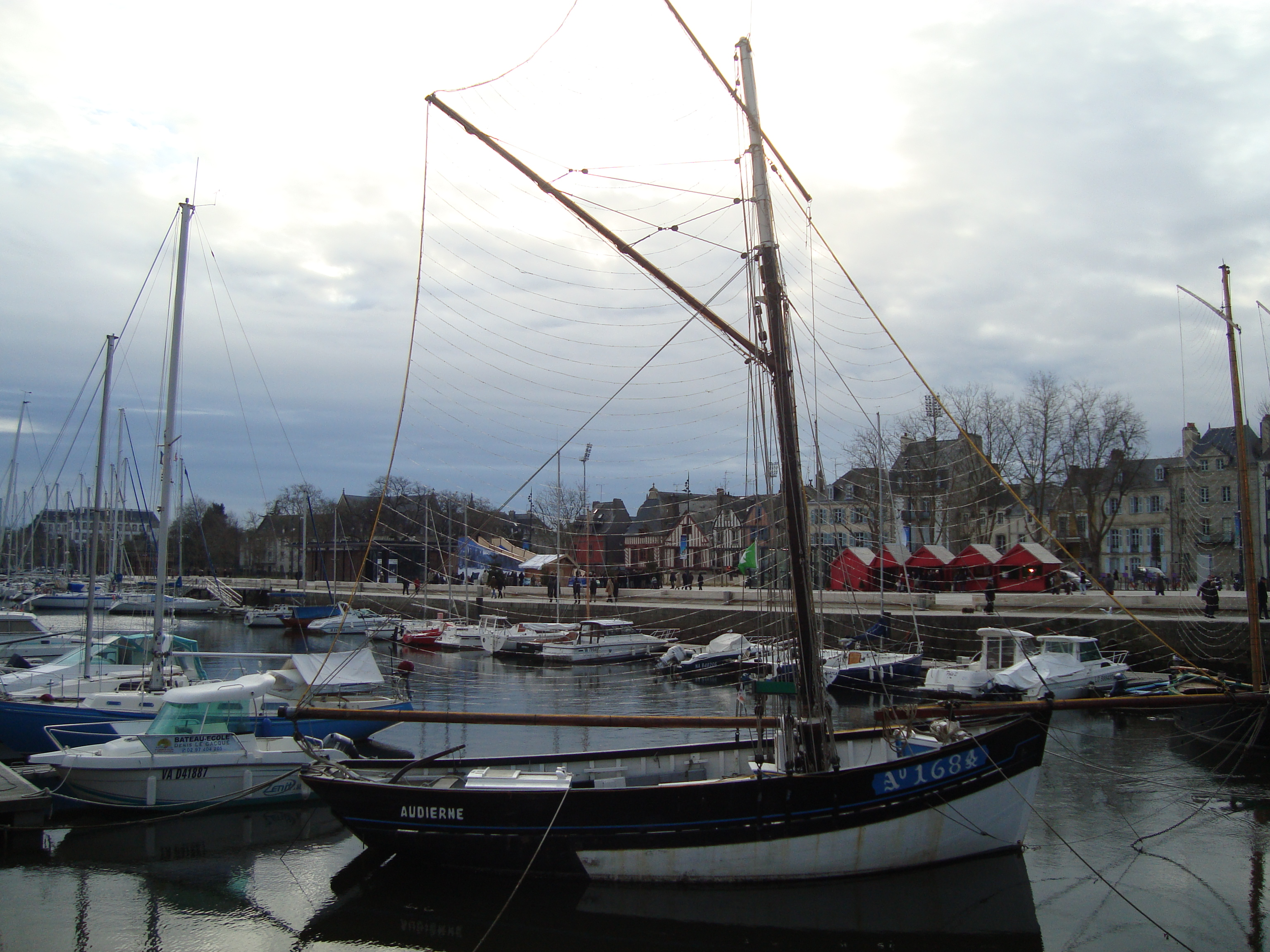 Fishing boat (Le Corbeau des mers) in the marina of Vannes, Brittany